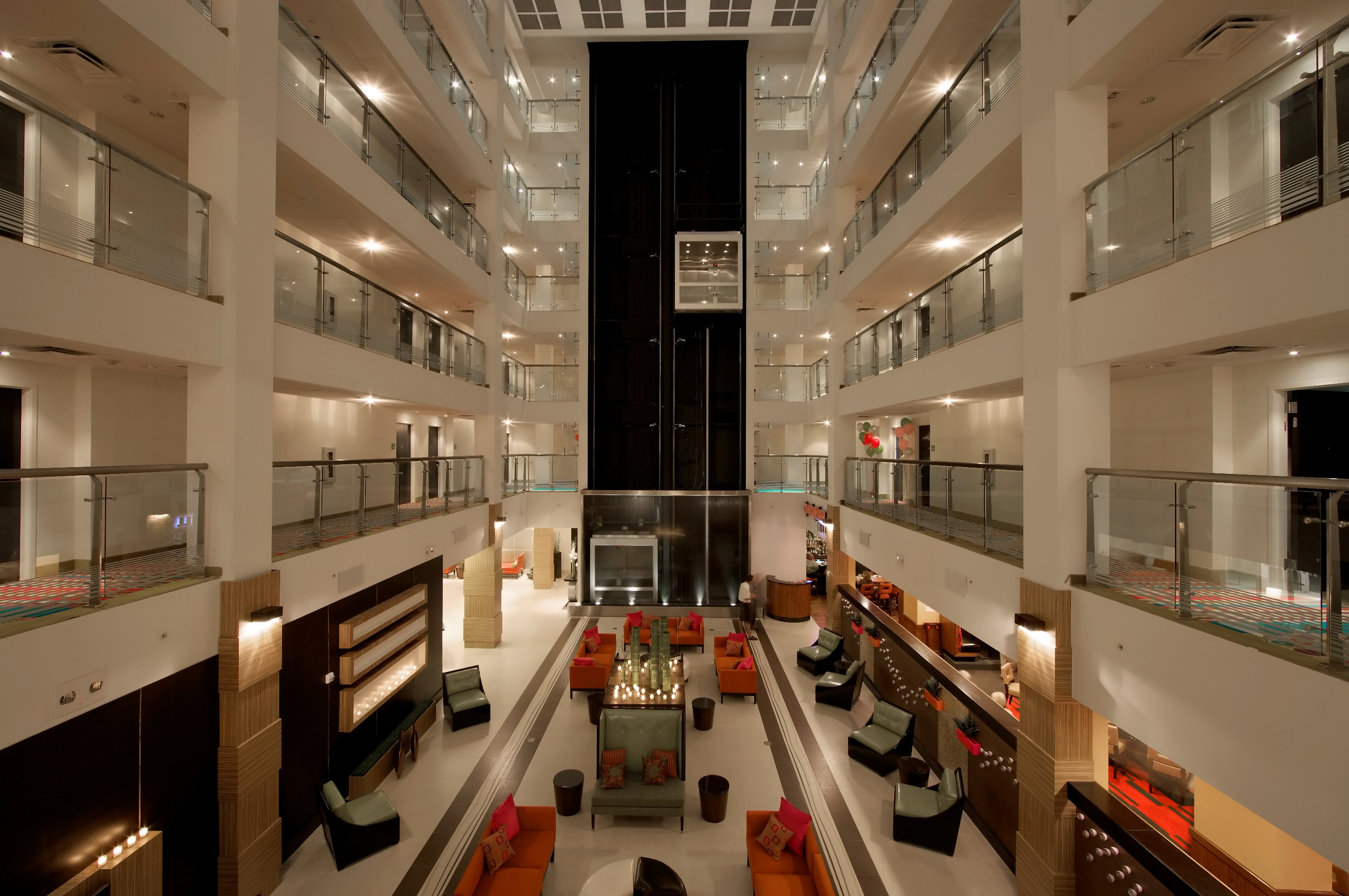 Atrium interior Holiday Inn Sarasota Airport